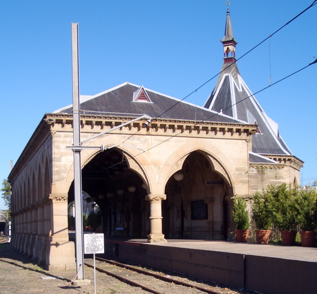 Mortuary Station of Regent St. Station (today: Sidney Central), Sydney, Australia.